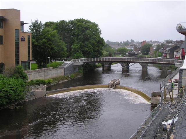 Fish counter, Omagh. It is down river from the new footbridge over the river Strule.